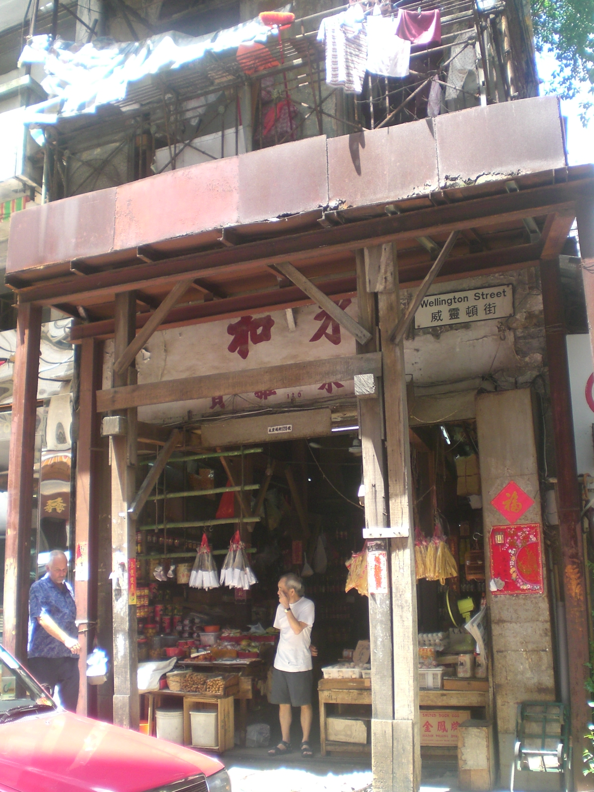 中環 老字號 永和號